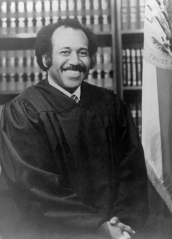 Accompanying note: "Photograph of Judge Alcee Lamar Hastings. Born in Altamonte Springs, Florida, he studied law and was appointed to a judgeship by President Jimmy Carter in 1979. He was the first African-American Federal judge in the state of Florida and served in that position for ten years."